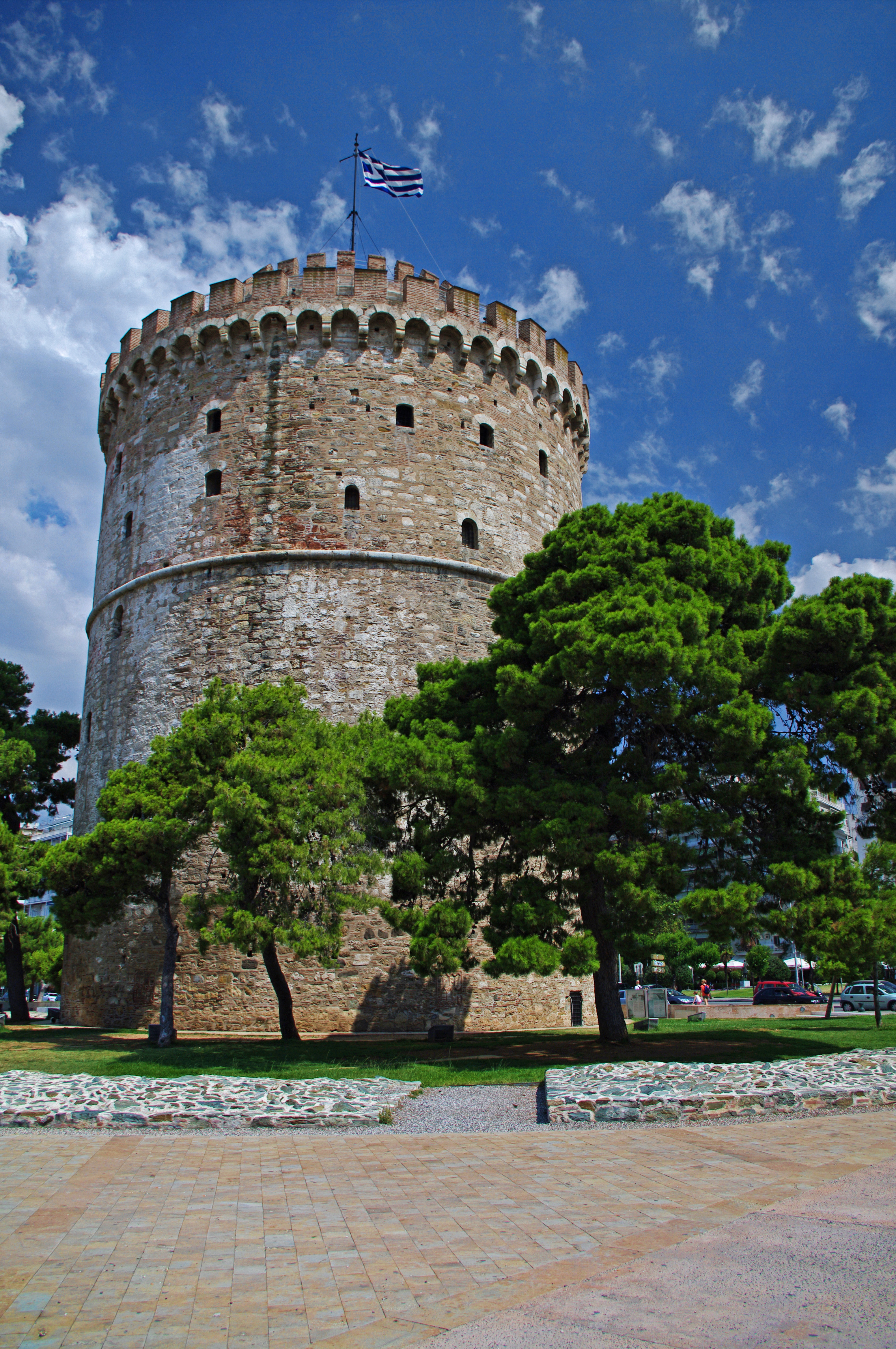 The White Tower of Thessaloniki«Λευκός Πύργος»